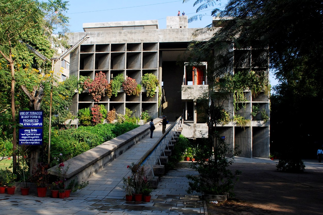 Mill Owners' Association Building